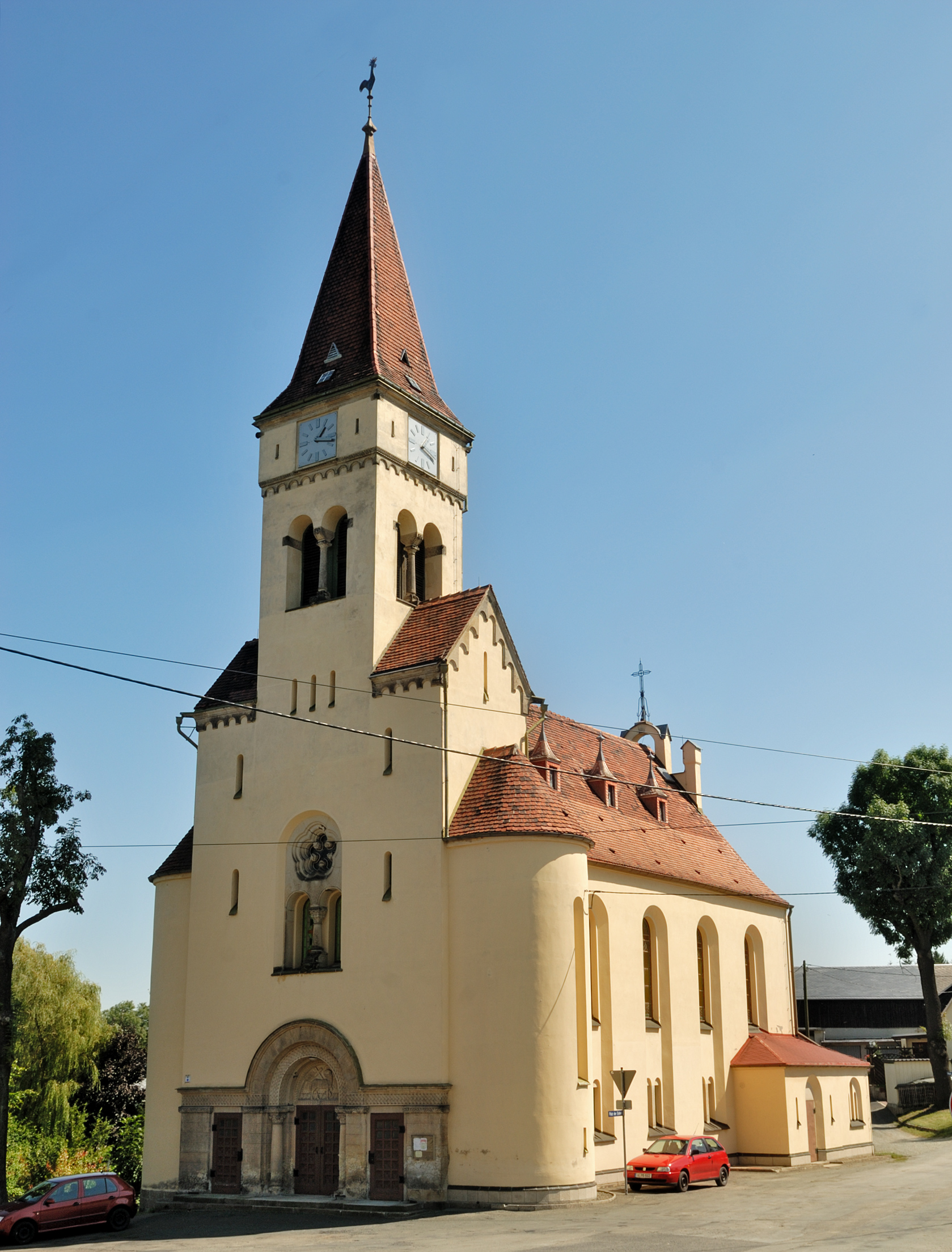 This image shows the church in Brockau, Saxony